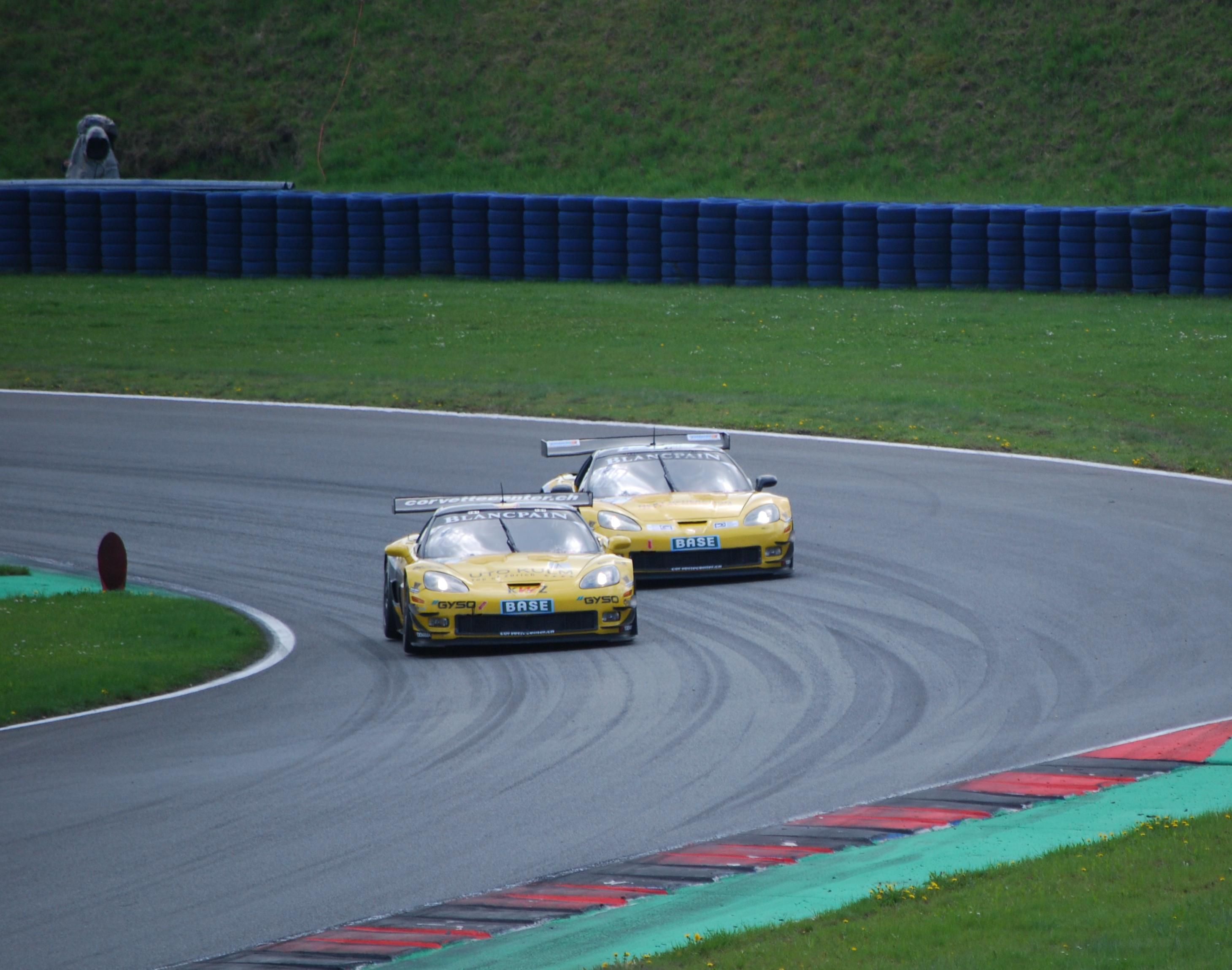 ADAC GT Masters in Oschersleben Race 2 - #18 Niclas Kentenich / Toni Seiler (l.) and #17 Remo Lips / Lennart Marioneck